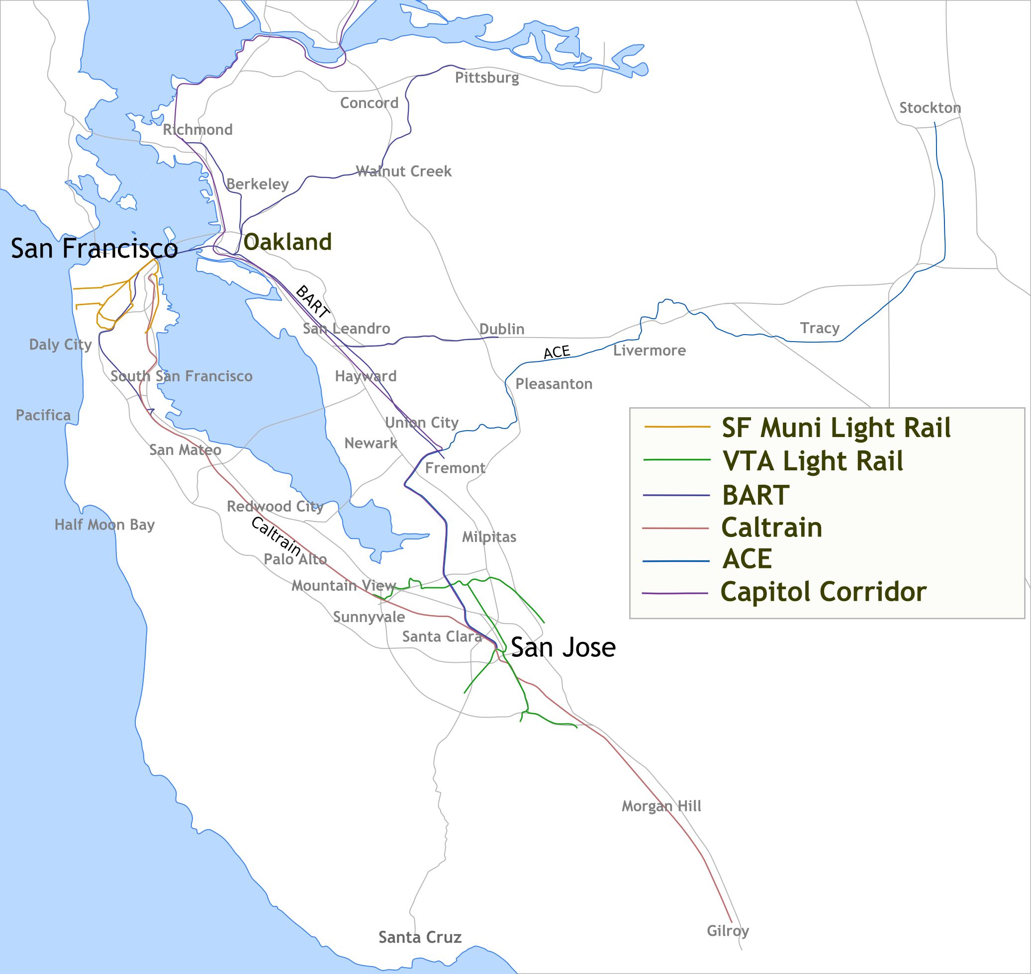 Rail Transit for the Bay Area. Showing Caltrain, BART, VTA light Rail, SF Muni Light Rail, and ACE. SVG file available here Image:Northern California 2.svg.